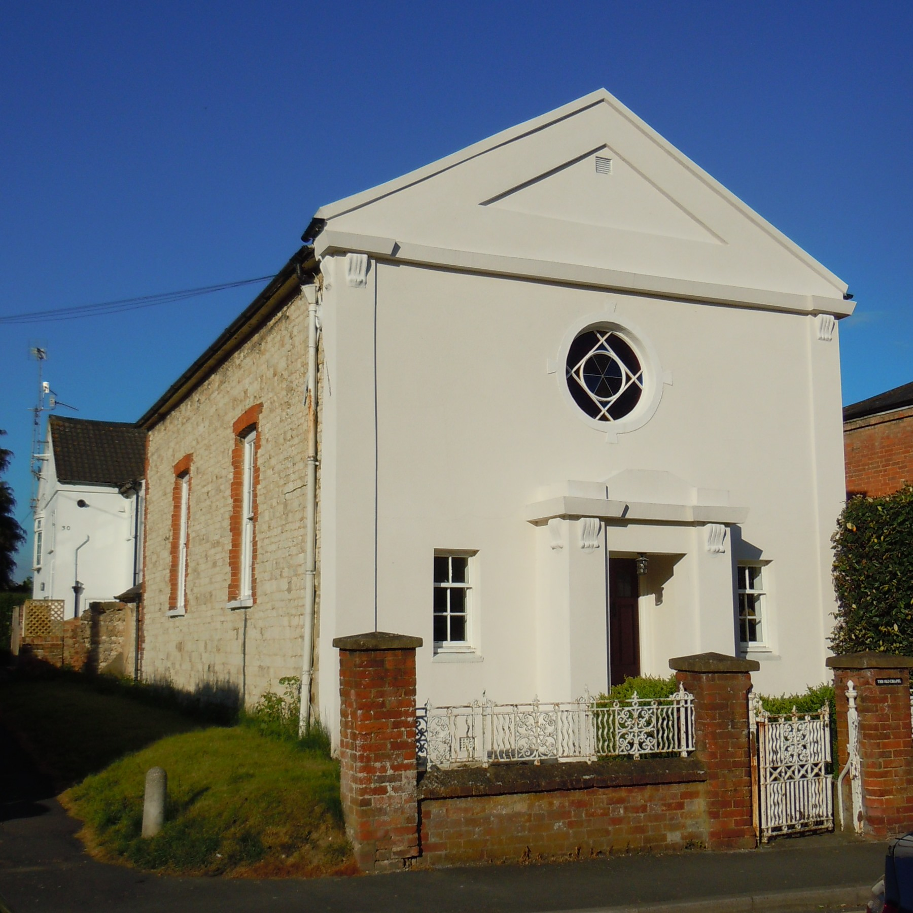 Former Park Lane Baptist Chapel, Bear Lane, Farnham, Borough of Waverley, Surrey, England. A former Strict Baptist chapel; now a house.